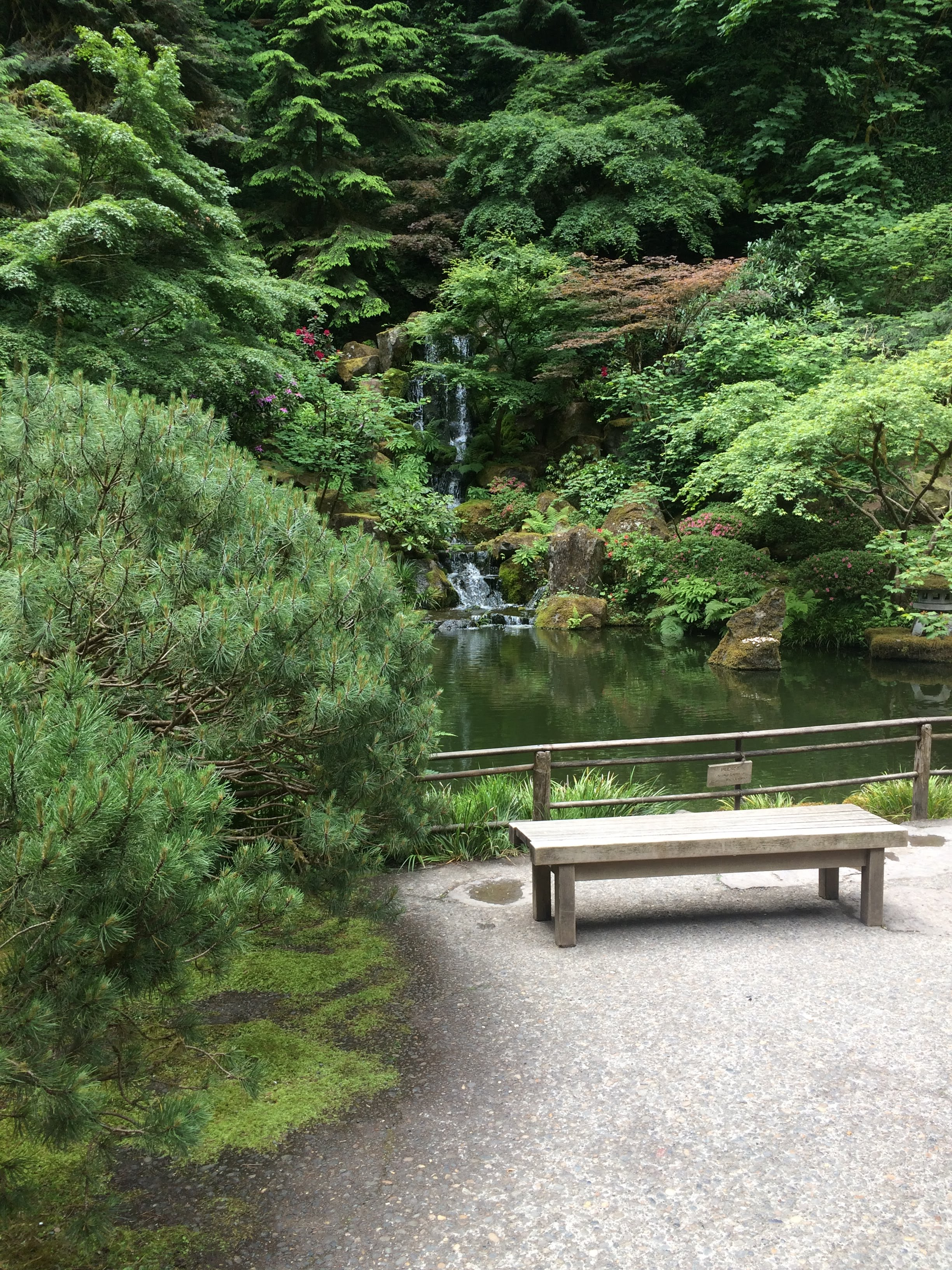 June 2018